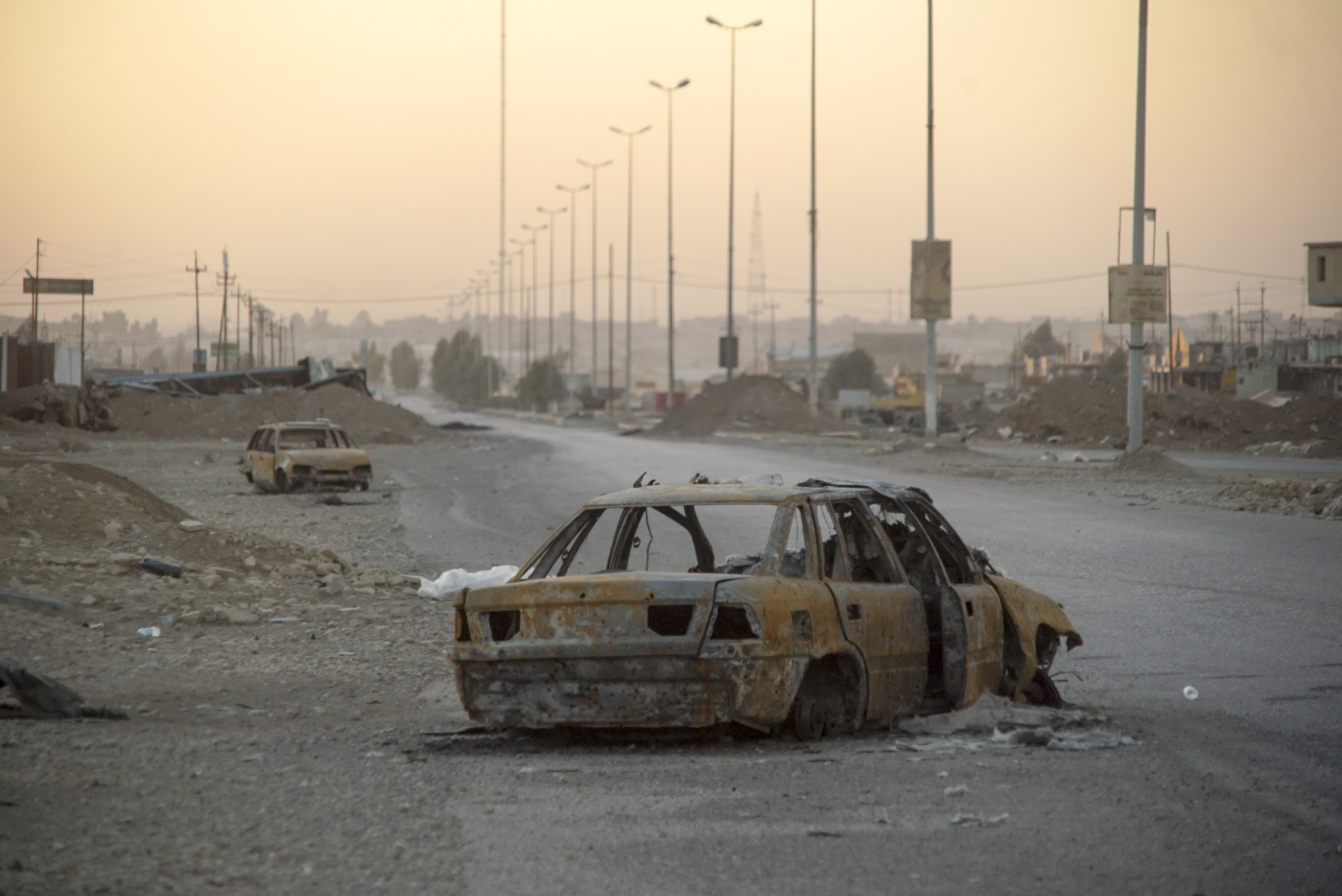 Outskirts of Mosul, Northern Iraq, Western Asia. 17 November, 2016.